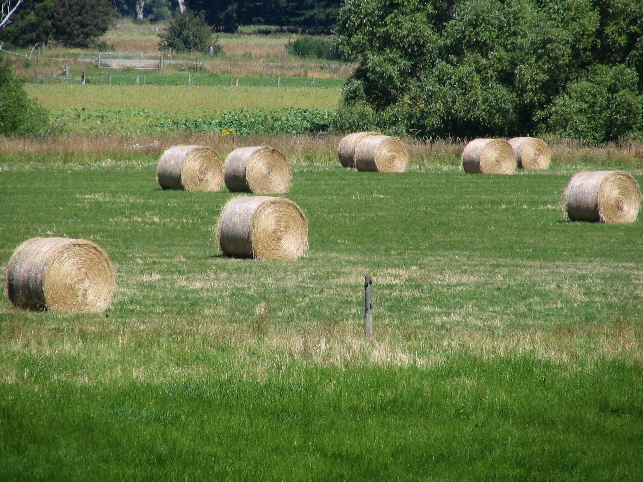 Hay bales near Berwick, Otago, New Zealand